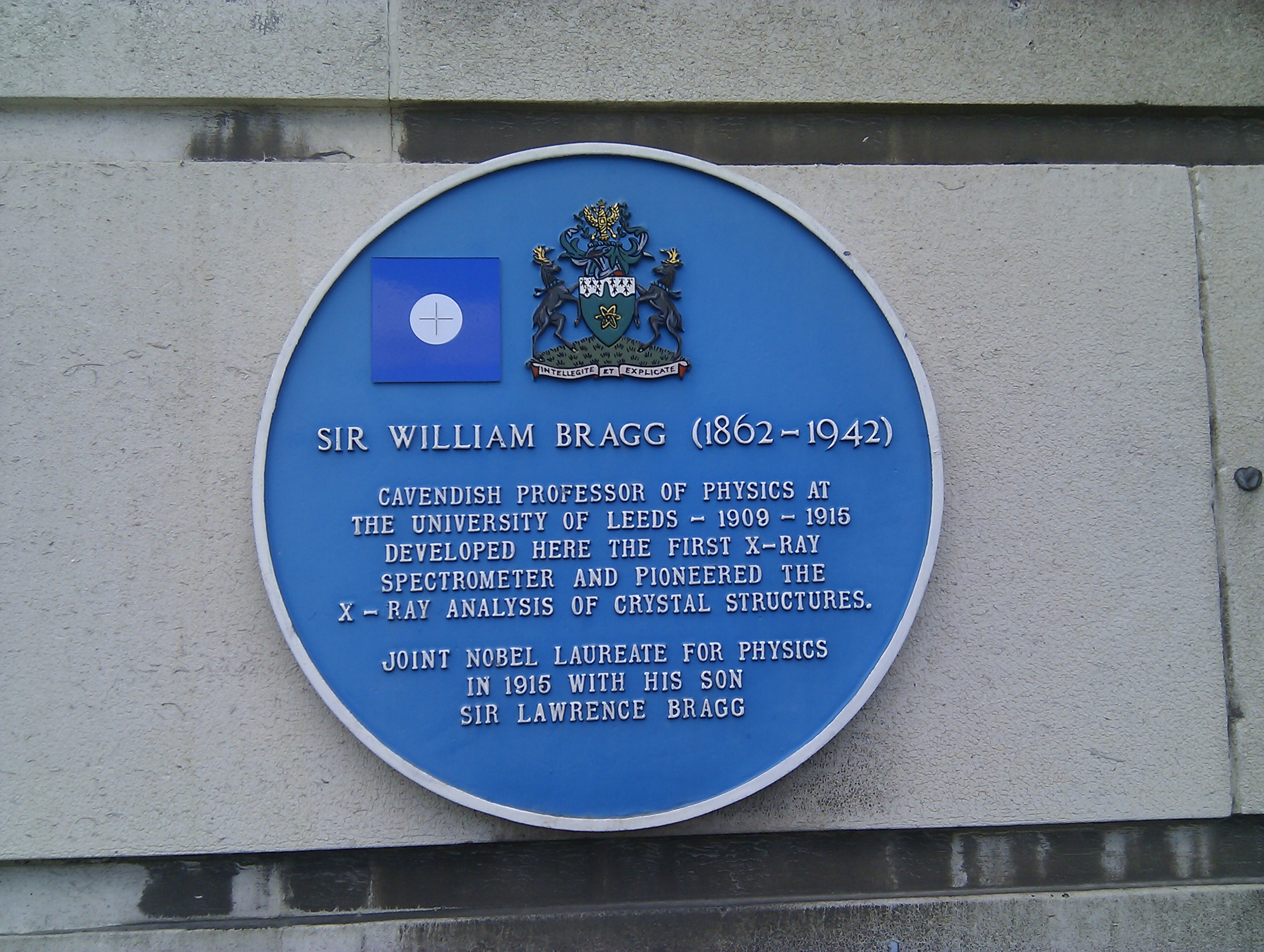 CC0 To the extent possible under law, Ben Dalton has waived all copyright and related or neighbouring rights to this photo. You can link back to this page if you would like to credit Ben for taking the photo, but you don't have to. However, if you would like to embed the copy of this photo that is hosted on Flickr in outside web sites, you must follow Flickr's hosting guidelines.